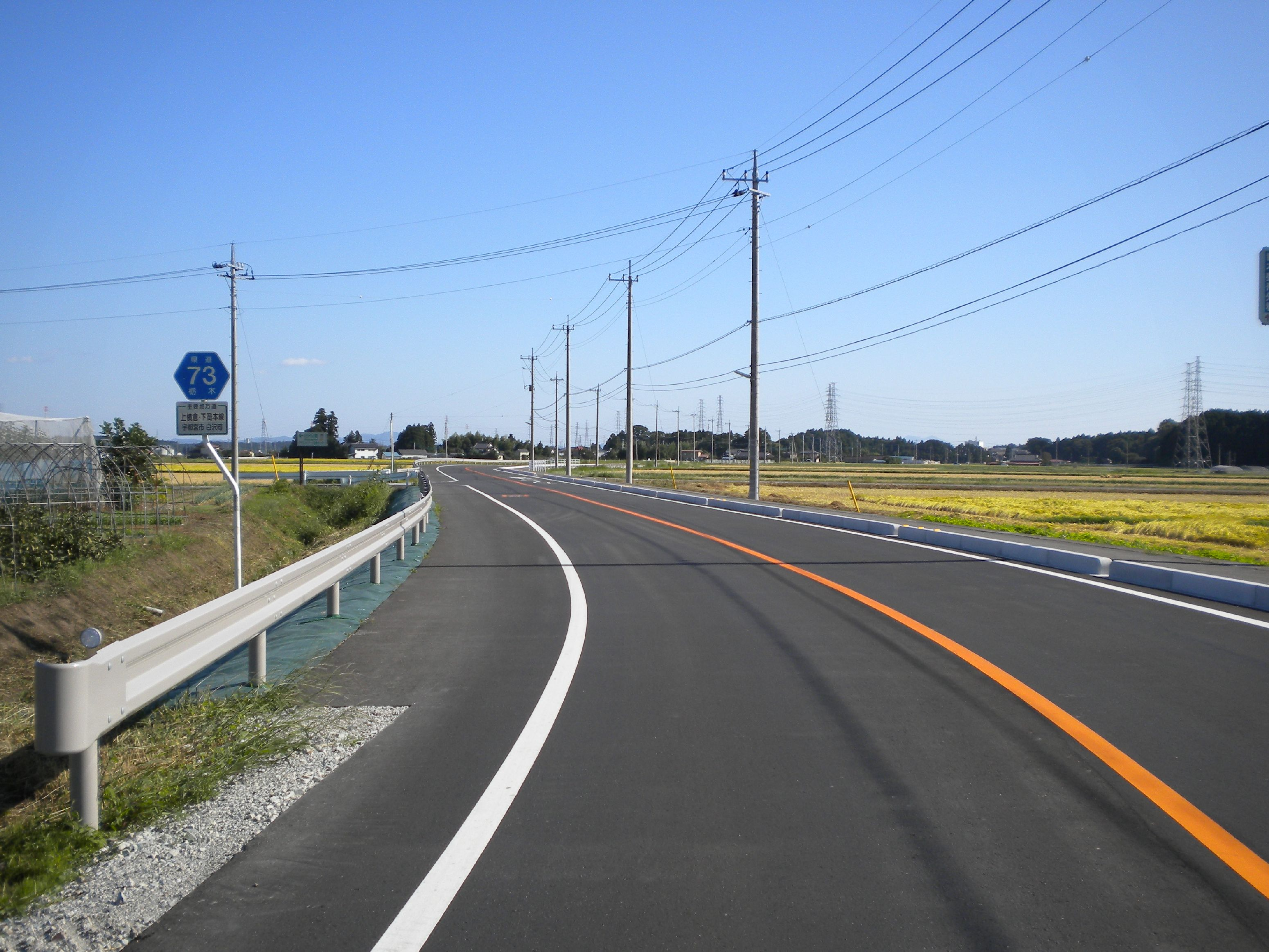 Tochigi prefectural road No.73 on Nikko city